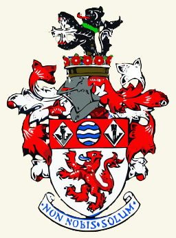 Coat of arms of the former Worsley Urban District Council. The armoural description is as follows: ARMS: Argent a Lion rampant Gules on a Chief of the last a Fountain between two Lozenges of the field on each a Pheon Sable. CREST: Out of a Coronet composed of eight Roses Gules barbed and seeded proper set upon a Rim Or a demi Lion Sable gorged with a Wreath of Oak also proper and holding between the paws a Cross patonce Argent. Motto: 'NON NOBIS SOLUM' - Not for ourselves alone.. Granted by the College of Arms on 14 February 1956.